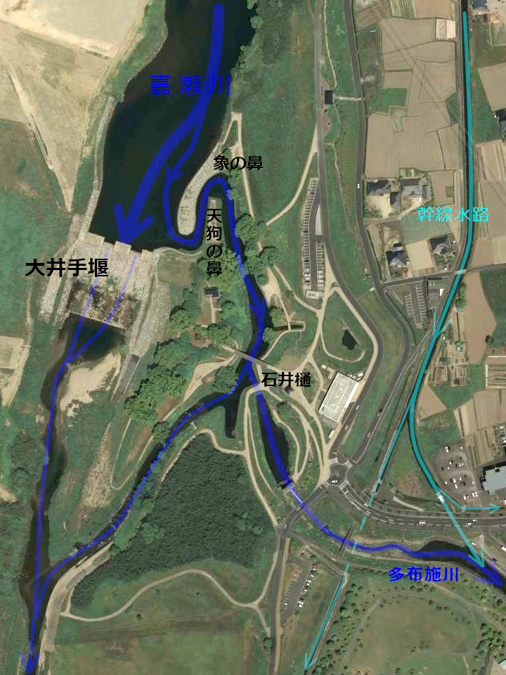 Aerial photo with Japanese caption of "Ishiibi", a rivers diversion work of the Tafuse River in Saga, Japan.